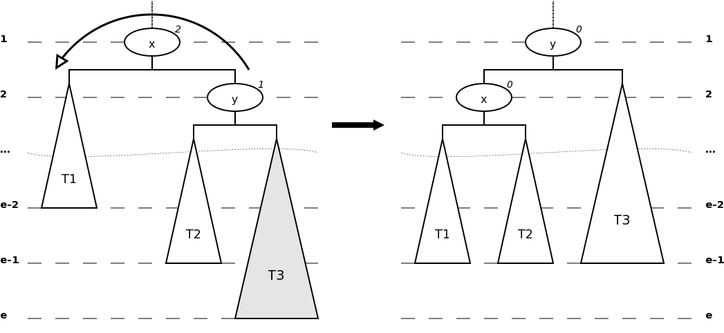 Left rotation (counterclockwise) of an AVL Tree, see also Image:AVL-Rightrotation.png.